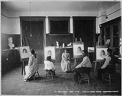 Life drawing class at the Phoenix Indian School, Arizona.